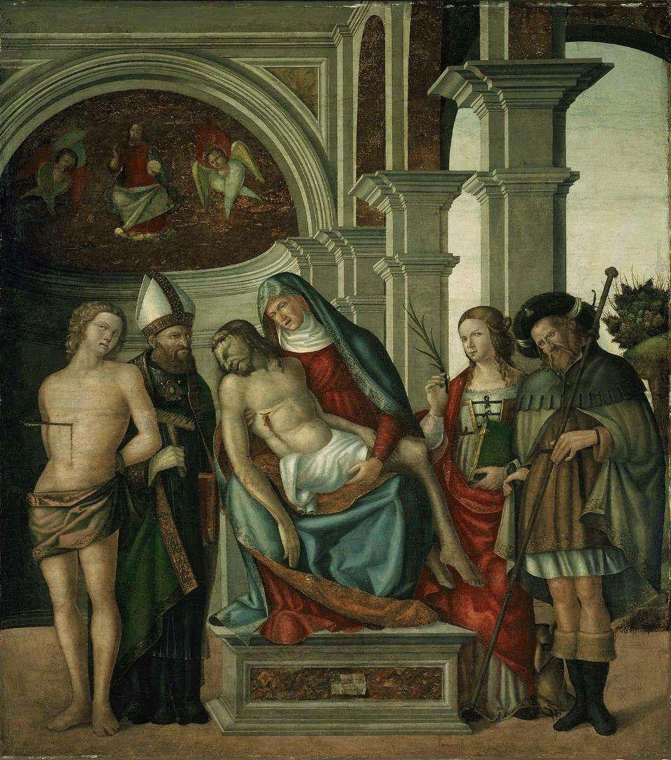 Virgin Holding the Dead Christ, with Saints Sebastian, Blaise, Margaret and James the Greatlabel QS:Len,"Virgin Holding the Dead Christ, with Saints Sebastian, Blaise, Margaret and James the Great"label QS:Lit,"Pietà con Santi Sebastiano, Biagio, Margherita e Giacomo Maggiore"